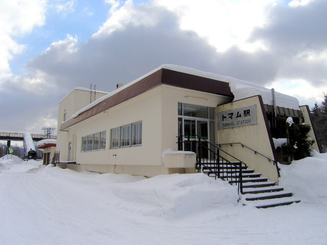 Hokkaido Sekisho Line Tomamu Station